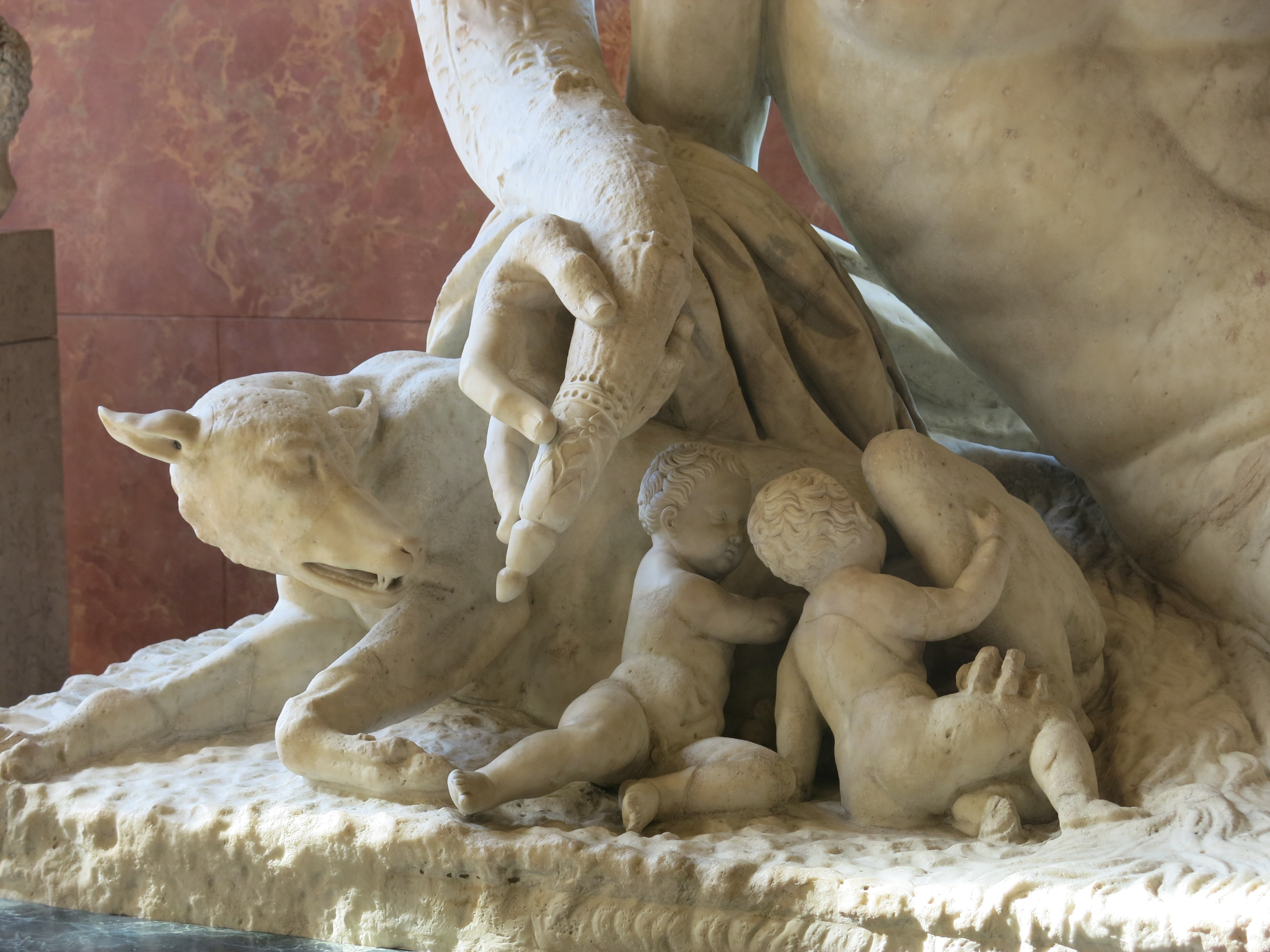 Details of Romulus and Remus on the allegory of Tiber river in the Louvre Museum (Paris, France).